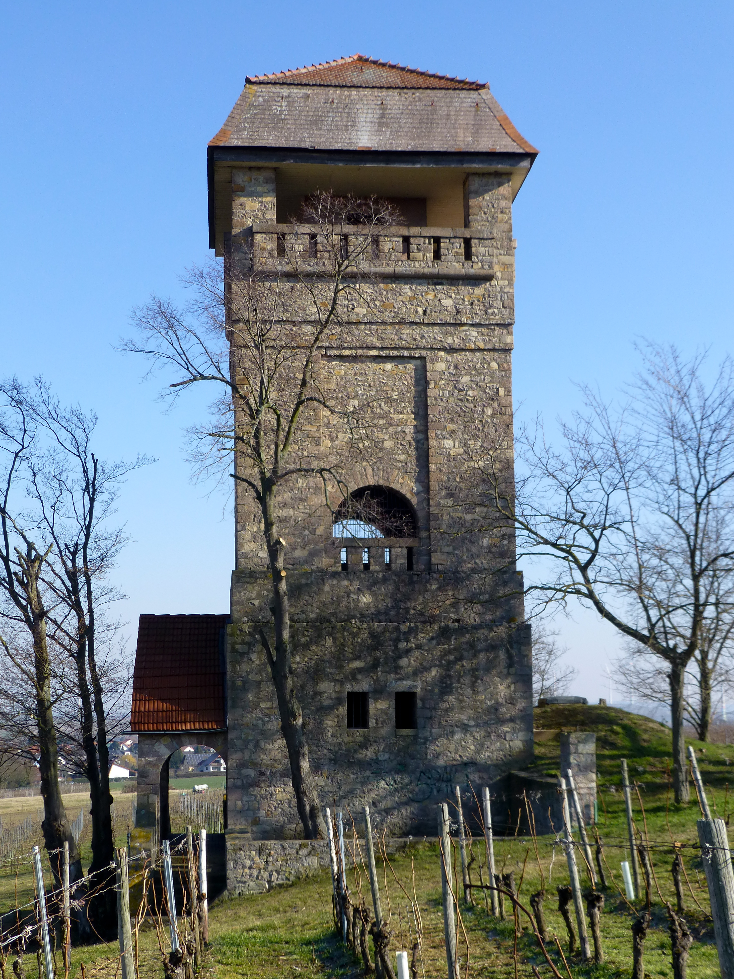 Water tower in Wöllstein; View from the west